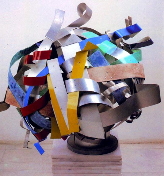 Dennis Oppenheim, Explosions, image from the Macedonian Museum of Contemporary Art, Thessaloniki, Central Macedonia, Greece